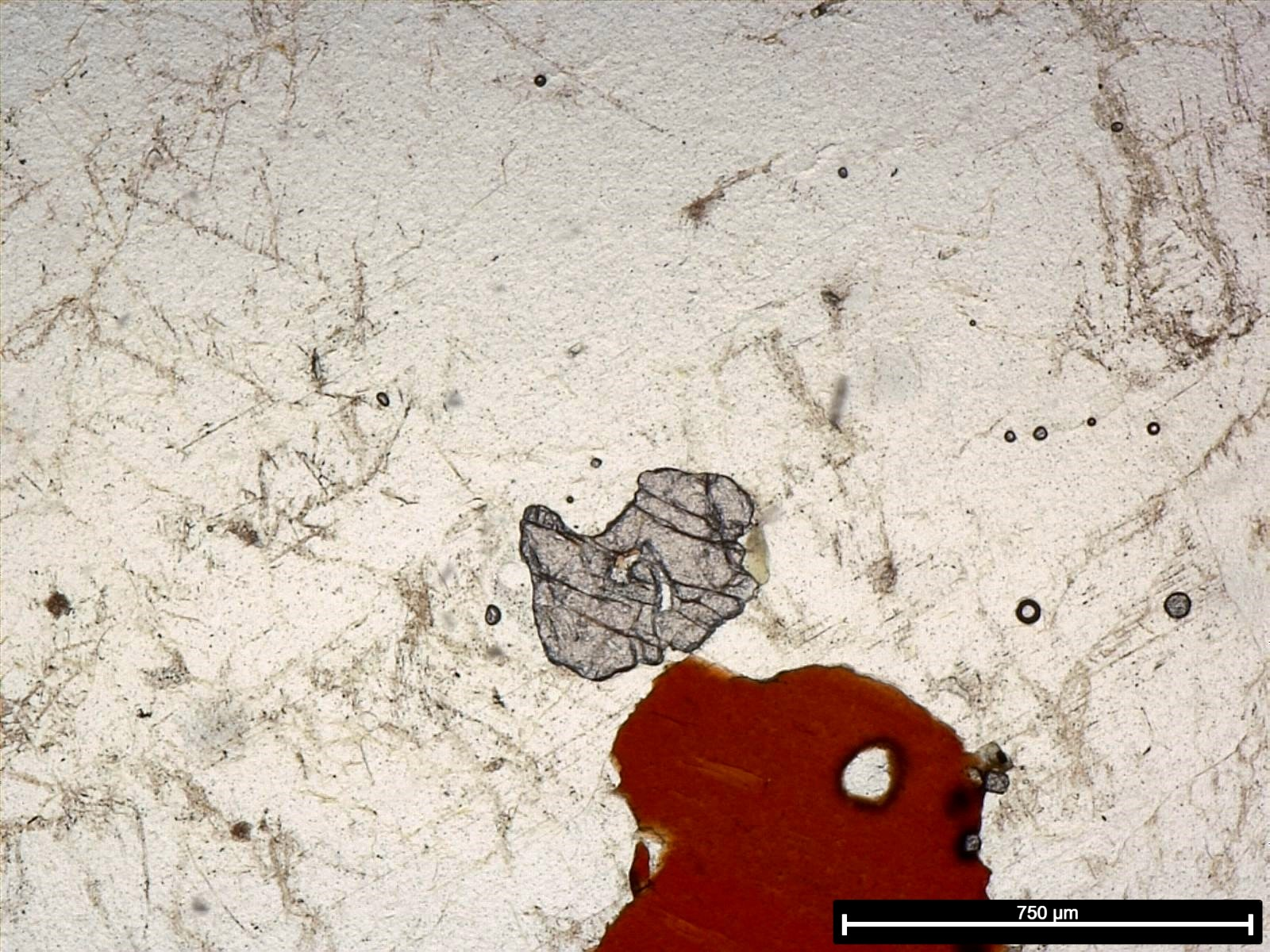 Plane Polarized Light photomicrograph of the CV 126 from the S-type Strathbogie Granite, Australia showing garnet and biotite